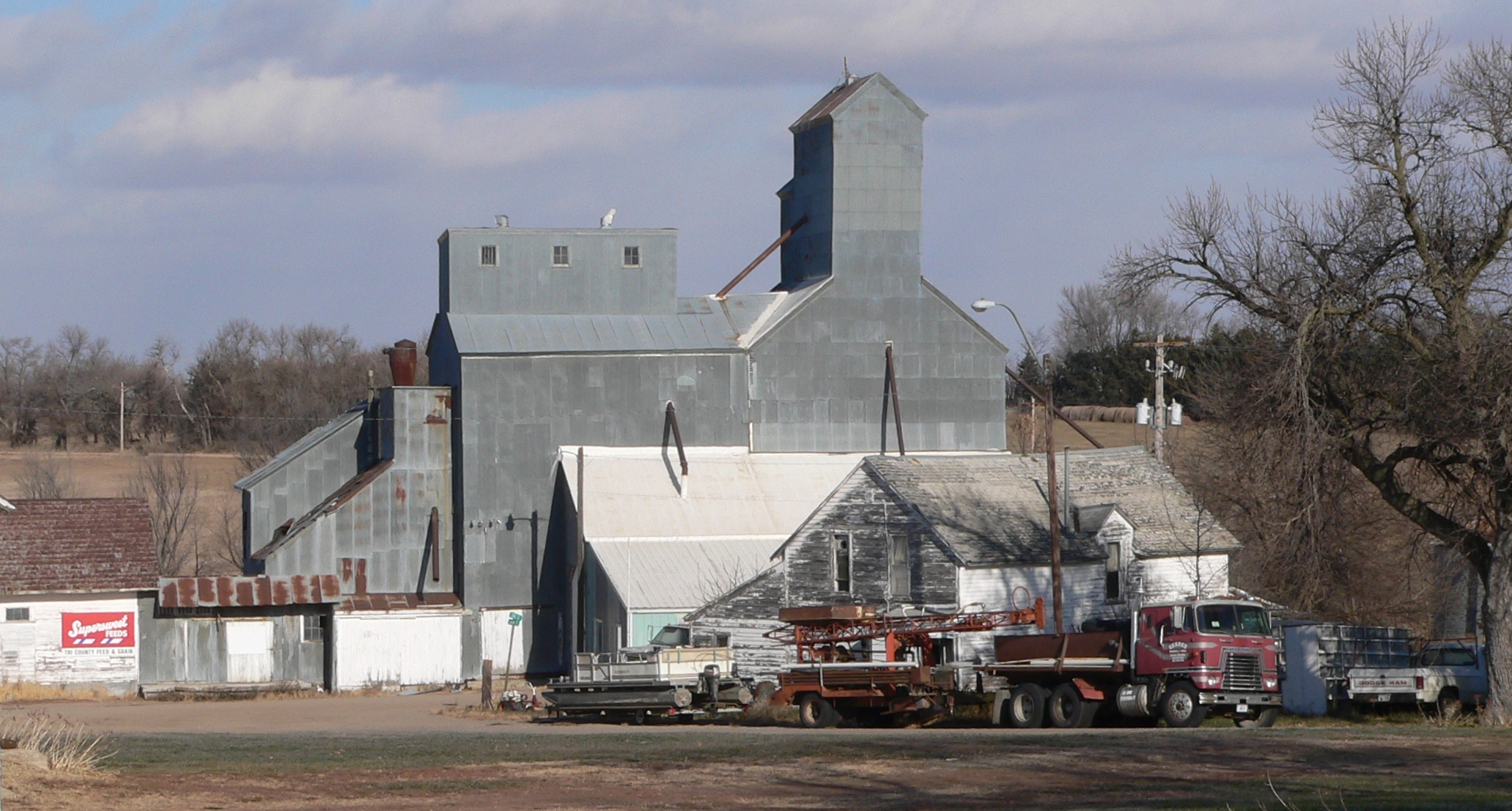 McLean, Nebraska: Main Street, looking north from about 3rd Street.